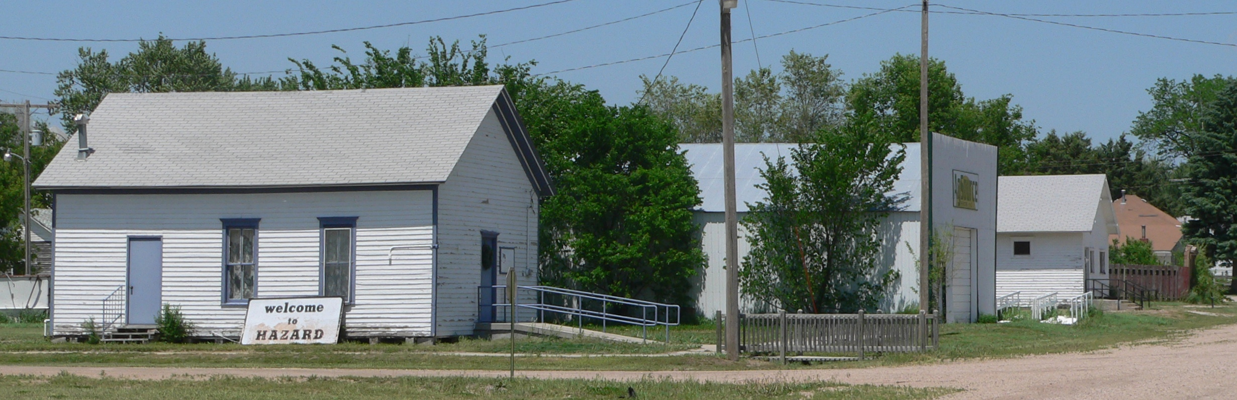 Downtown Hazard, Nebraska: west side of Market Street, seen looking north from south of Jerrold Street.